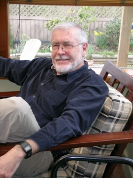 Photo of the subject taken at his home in Canada, in the Spring of 2008.